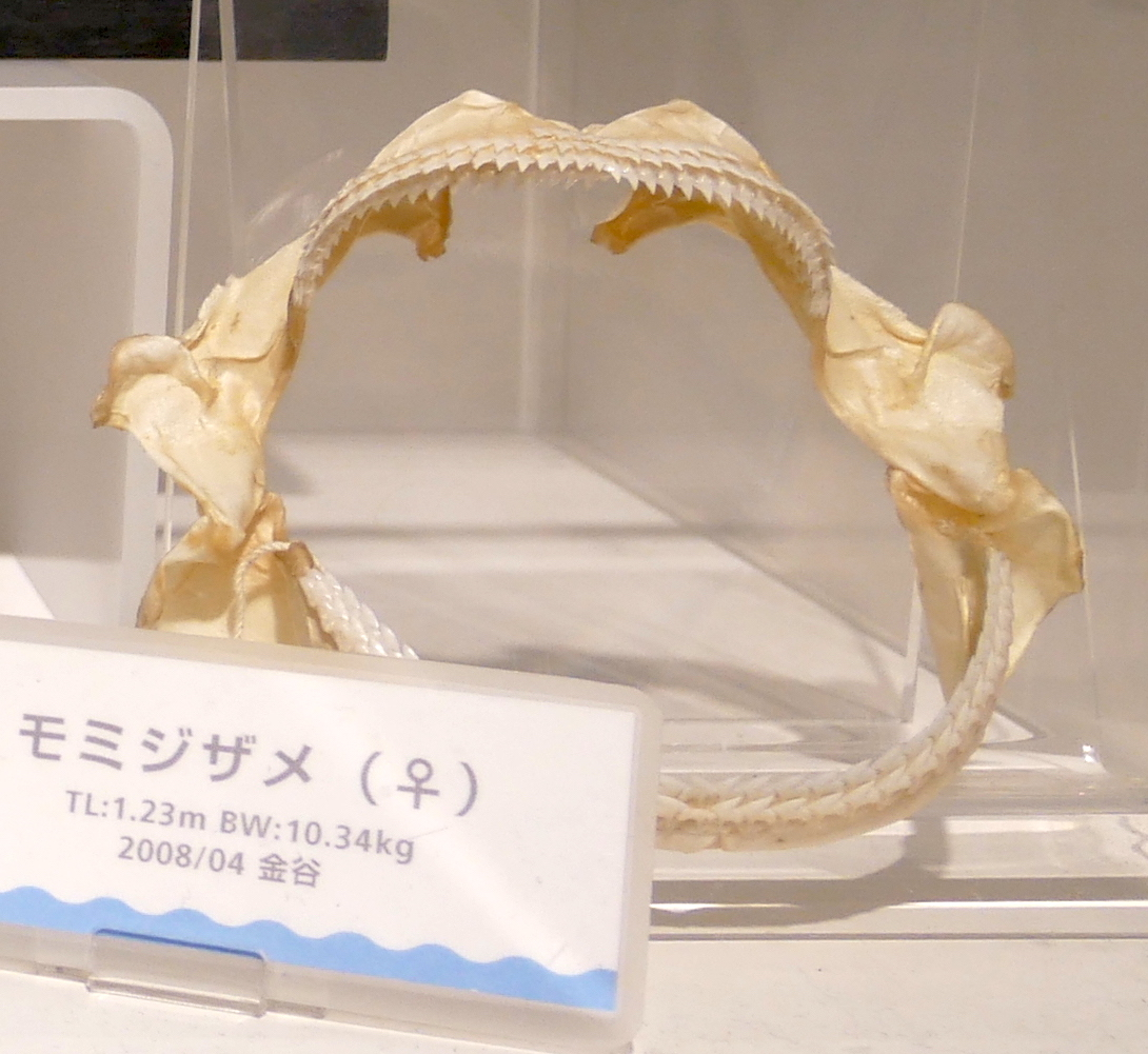 Female Leafscale gulper shark mouth (Centrophorus squamosus, モミジザメ)